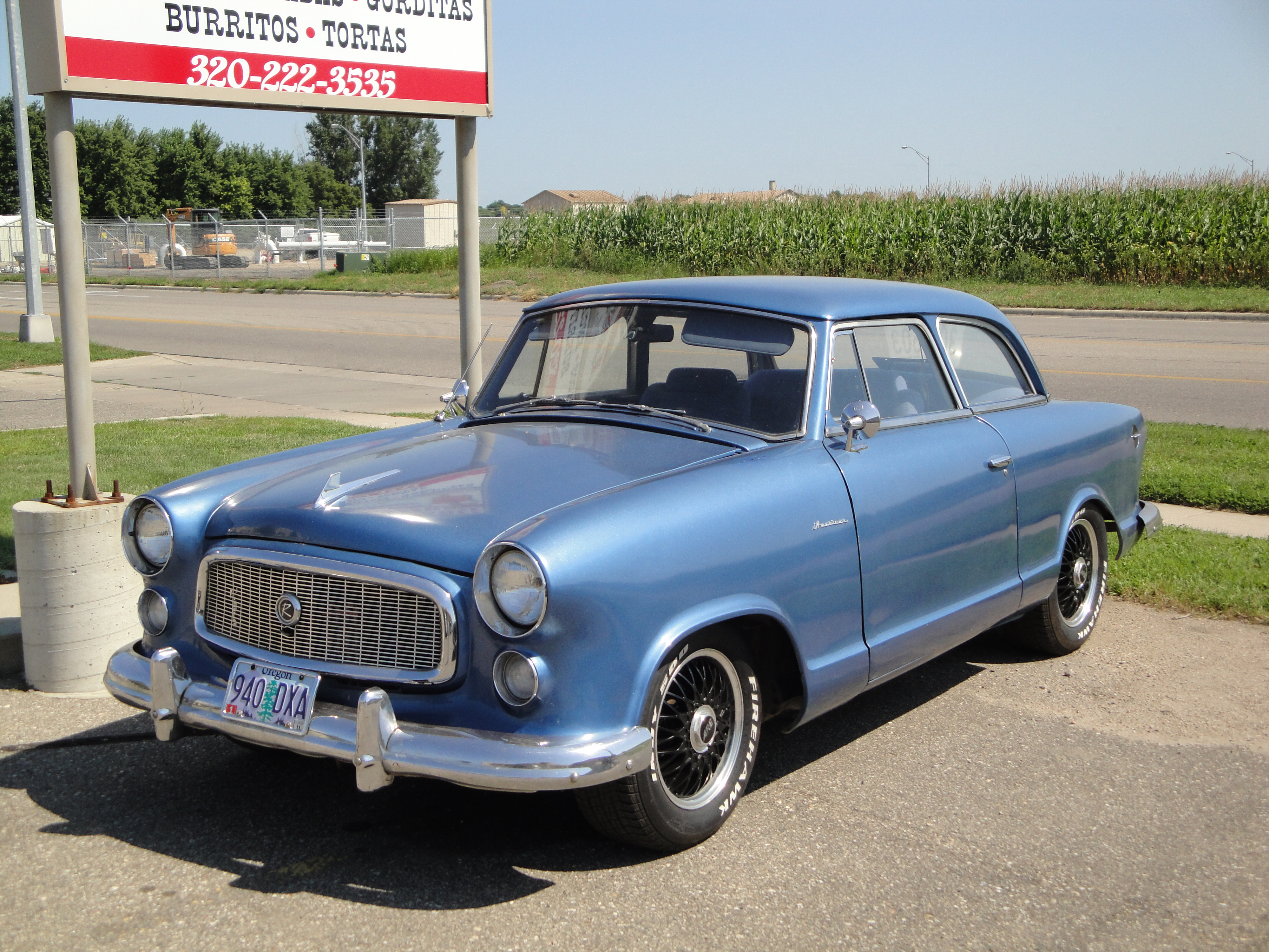 59 Rambler American Super